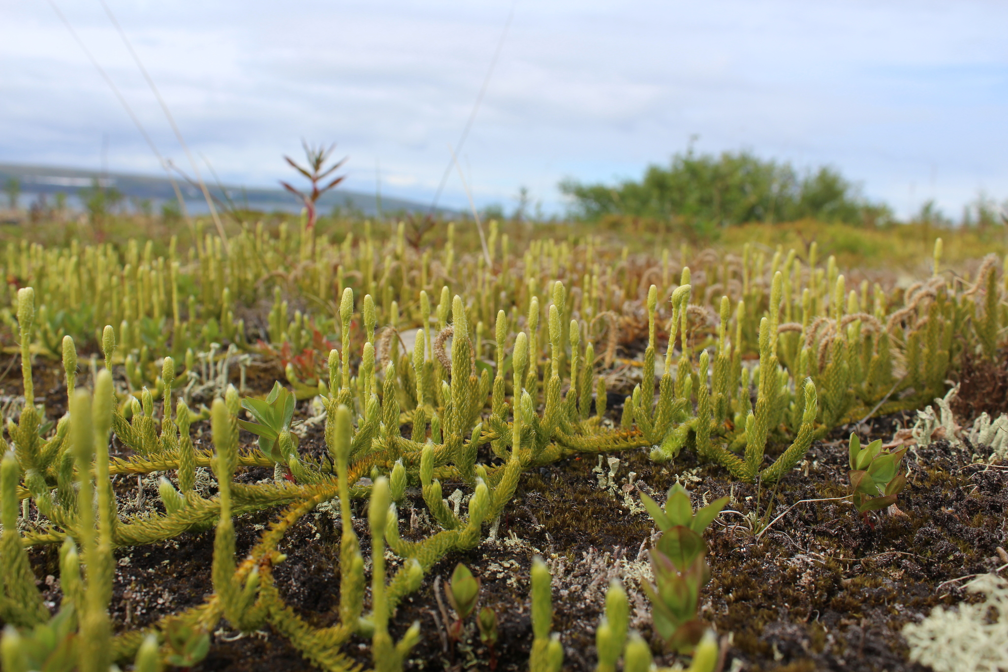 Lycopodium lagopus in Pechengsky District, Murmansk Oblast, Russia